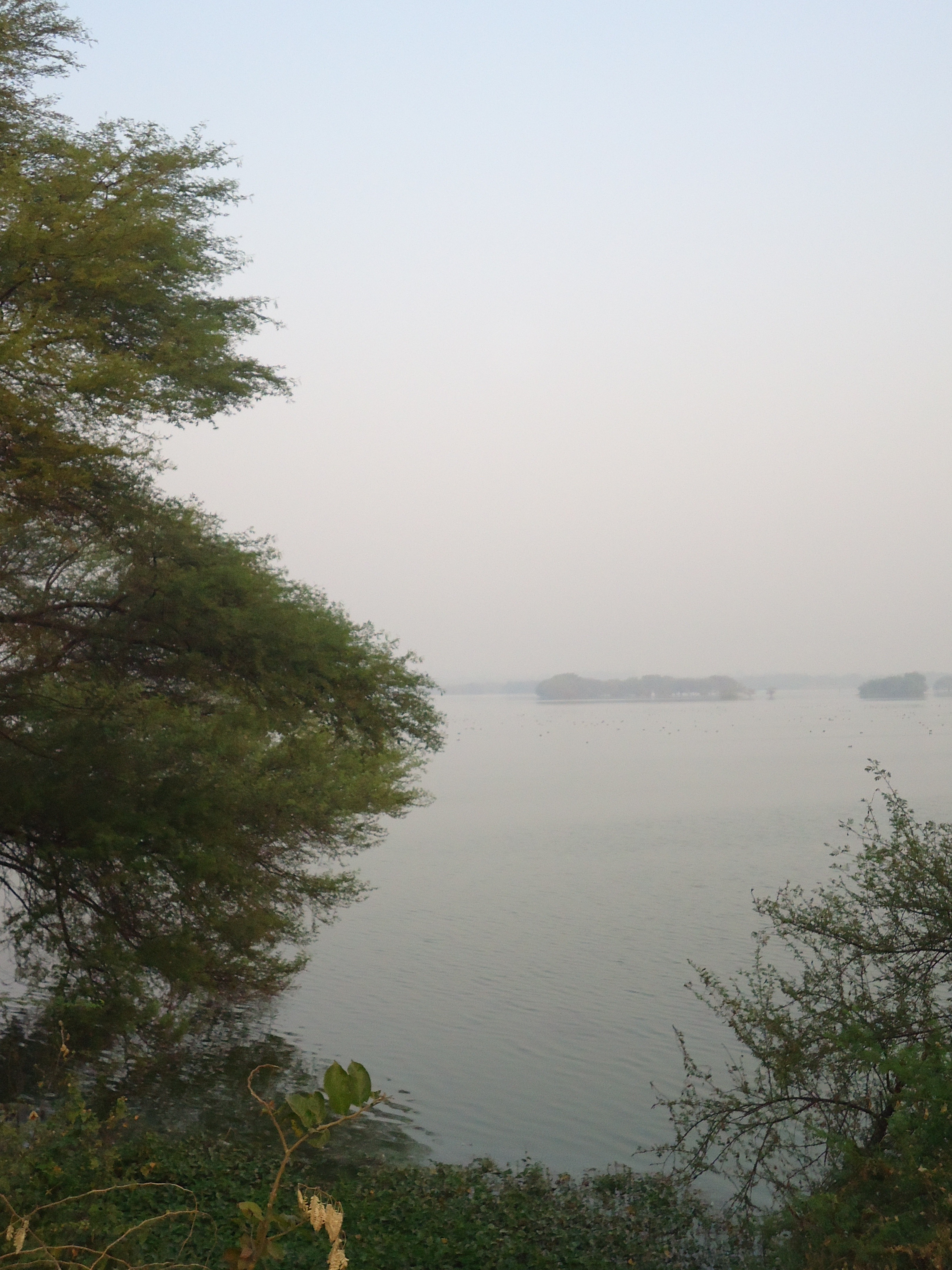 Thol lake at Thol Bird Sanctuary near Ahmedabad